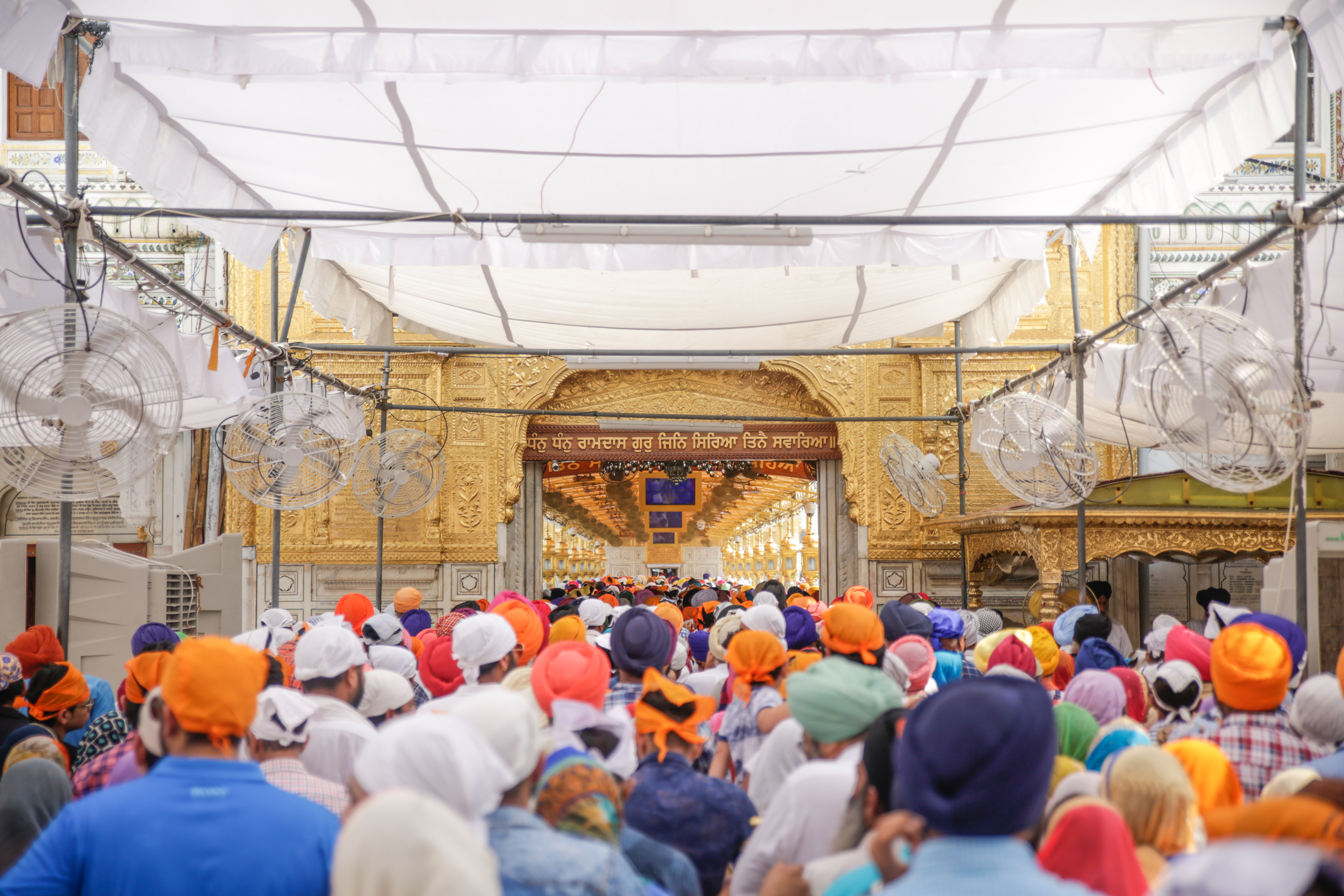 Main entrance leading to the pathway to Darbar Sahib Amritsar.